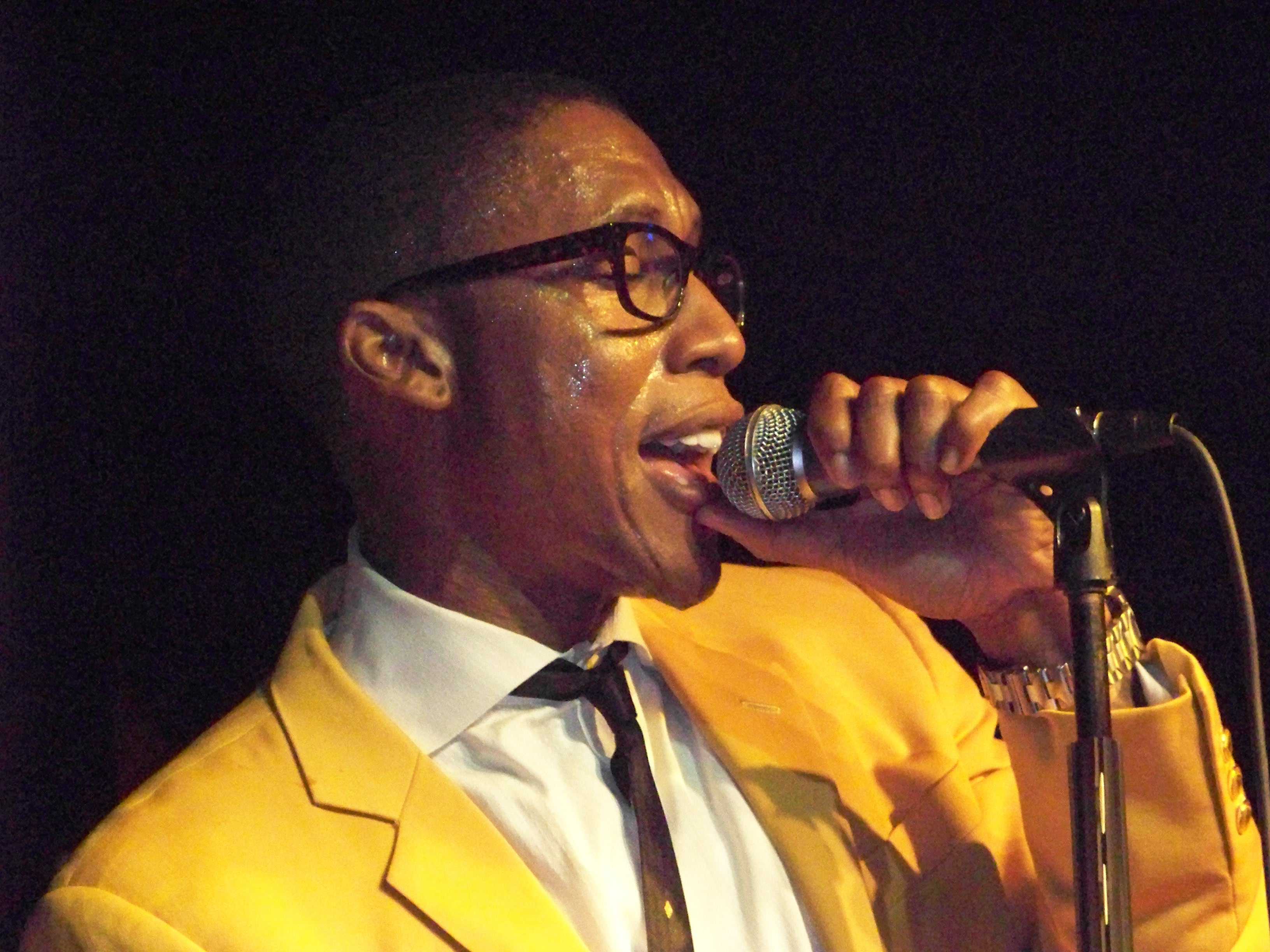 Raphael Saadiq, American singer-songwriter.